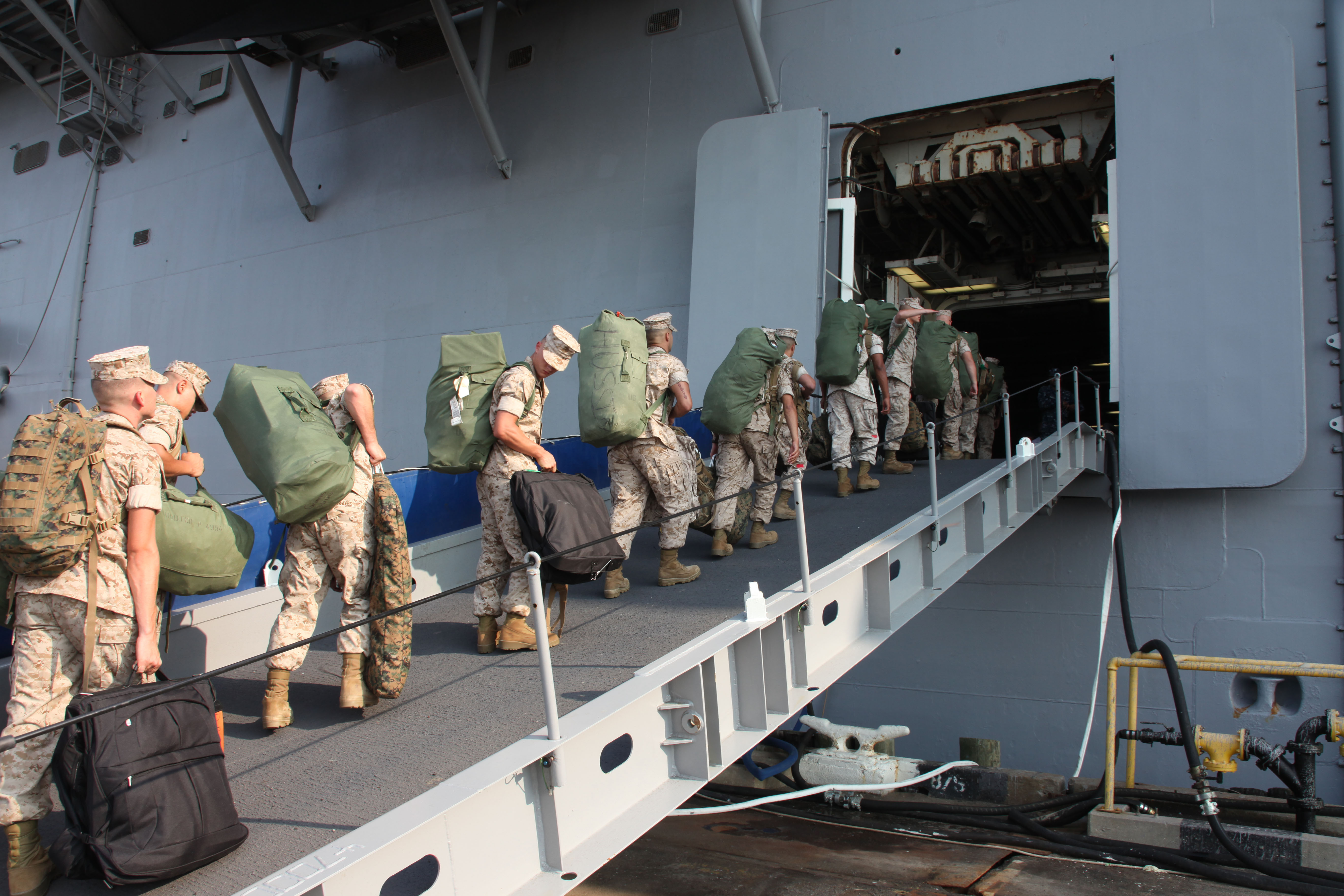 Marines and Sailors with the 24th Marine Expeditionary Unit board the USS Iwo Jima (LHD-7) at Pier 10, May 22, 2011. The Marines and Sailors on the ship are preparing to travel to participate in New York City's Fleet Week. Various units from II Marine Expeditionary Force and Marines Forces Reserve have organized under the 24th MEU to form the Special Purpose Marine Air Ground Task Force - New York. The Marines are embarking on the Navy’s Amphibious Assault Ships, the USS Iwo Jima (LHD -7) and USS New York (LPD-21) to take part in New York City's Fleet Week from May 25 to June 1, 2011. There, the Marines will showcase the capabilities of the MAGTF, and also honor those who have served by participating in a various of events during the Memorial Day weekend.